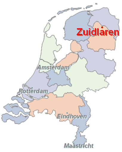 Zuidlaren on the map of the Netherlands, improved version. (Larger fonts).